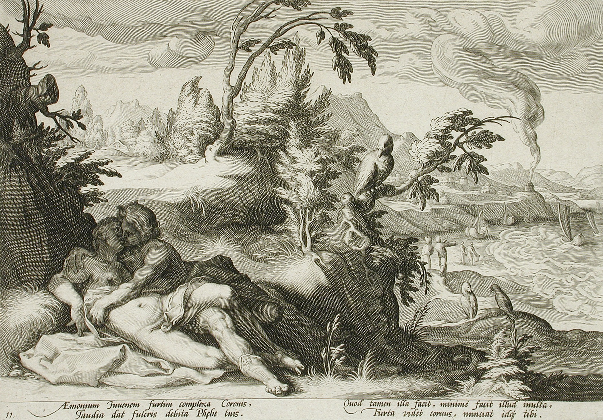 Holland, published 1590 Book: Metamorphoses by Ovid, book 2, plate 11 Prints; engravings Engraving Gift of Mary Stansbury Ruiz (M.83.119.2) Prints and Drawings